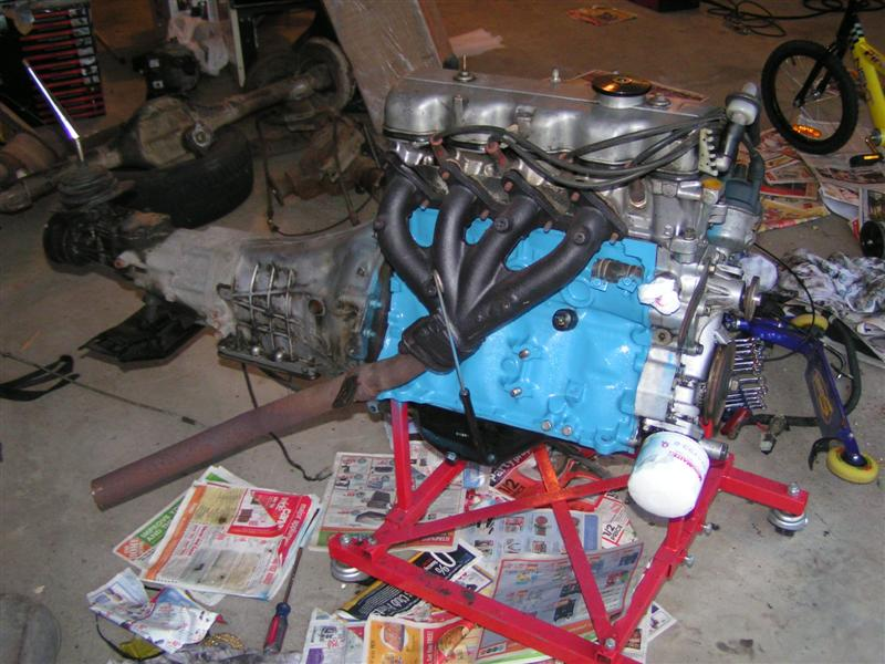 My first attempt at painting an engine. Not sure if I like the colour. Tranny still needs cleaned.